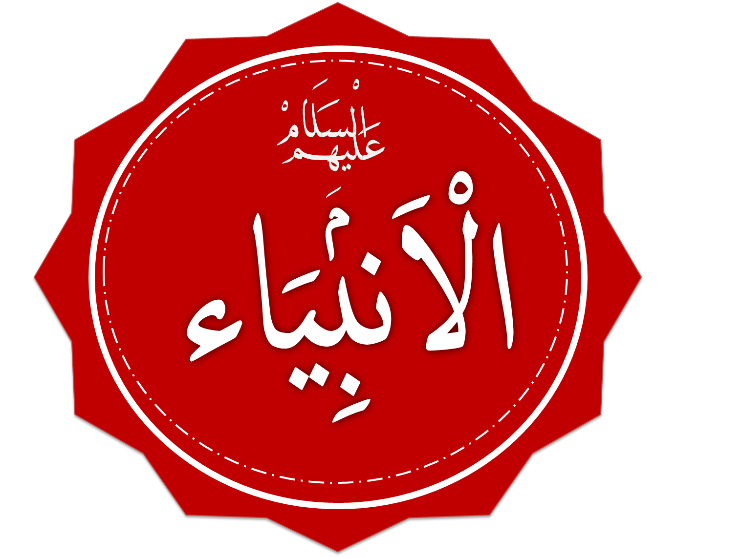 In this picture is the arabic word "Anbiya" (means prophets) written.